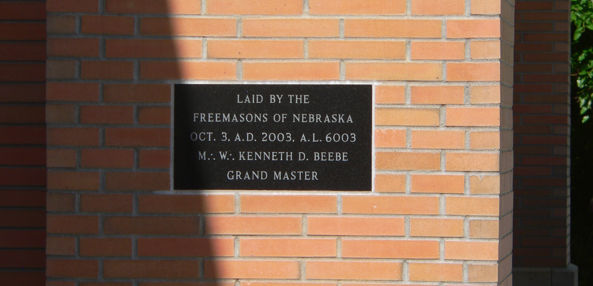 Cornerstone laid by the Freemasons on north side of city hall in South Sioux City, Nebraska. The date is given in Anno Domini and Anno Lucis